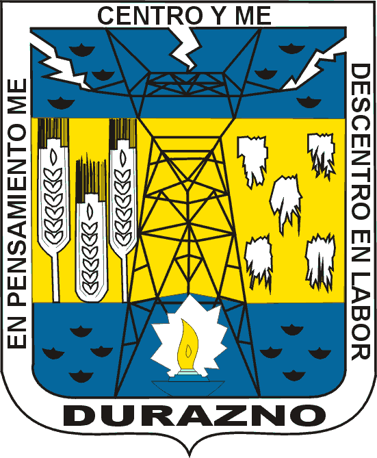 Coat of Arms of the Department of Durazno, in Uruguay. Drawn by: Jordevi